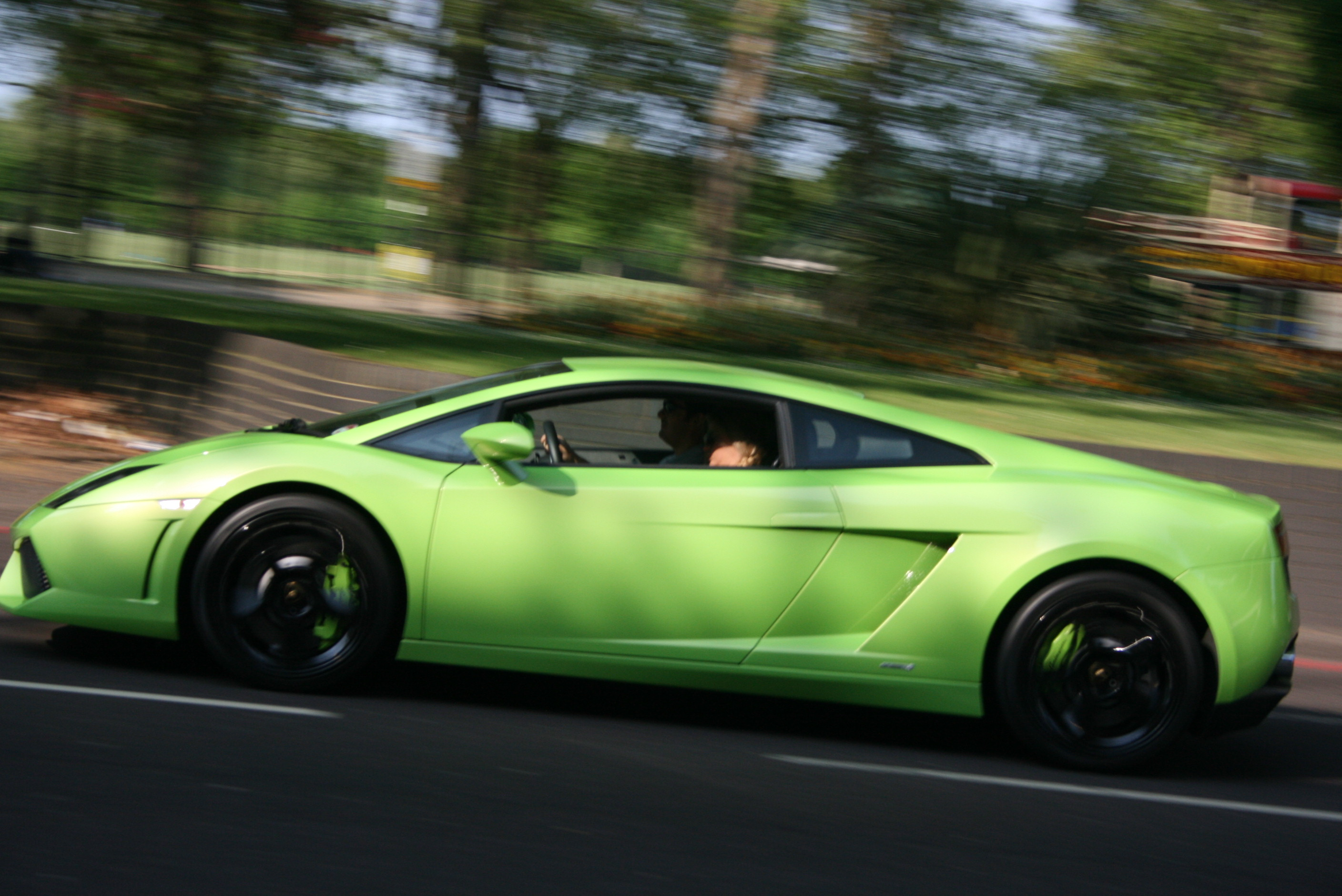 Lamborghini Gallardo racing down Park Lane